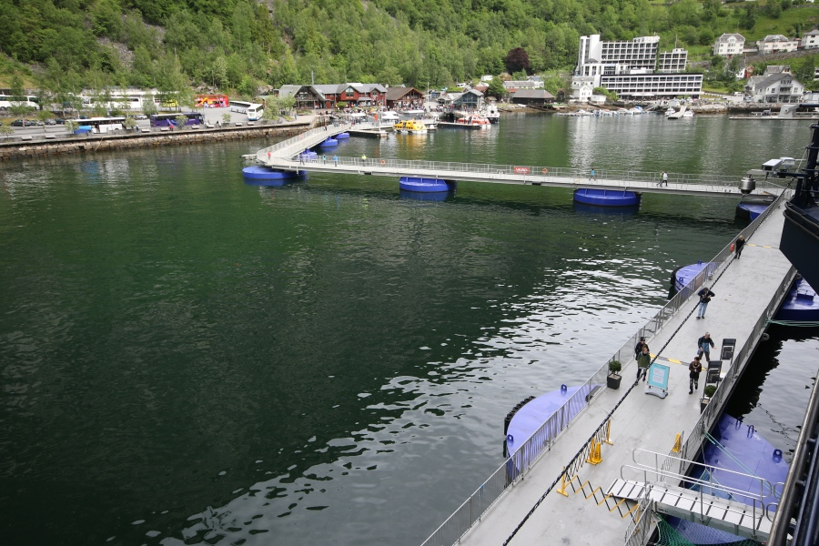 Three-piece fold-out floating pier for cruise ships in the port of Geiranger (Norway)